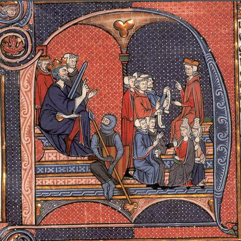 Illustration from Vidal de Canella's "Vidal major".